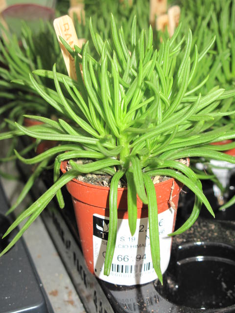 Senecio himalaya in a garden centre. Identified by its commercial botanic label.